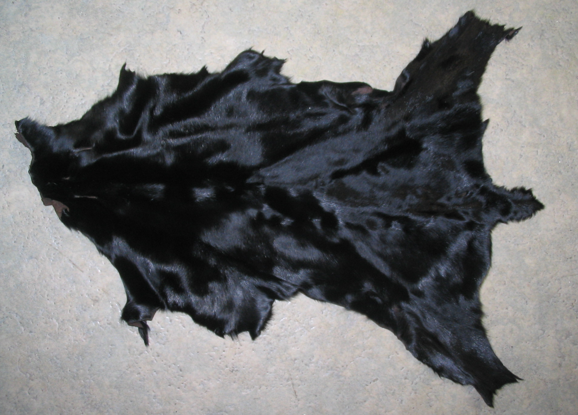 Black dyed Donkali-kid fur-skin